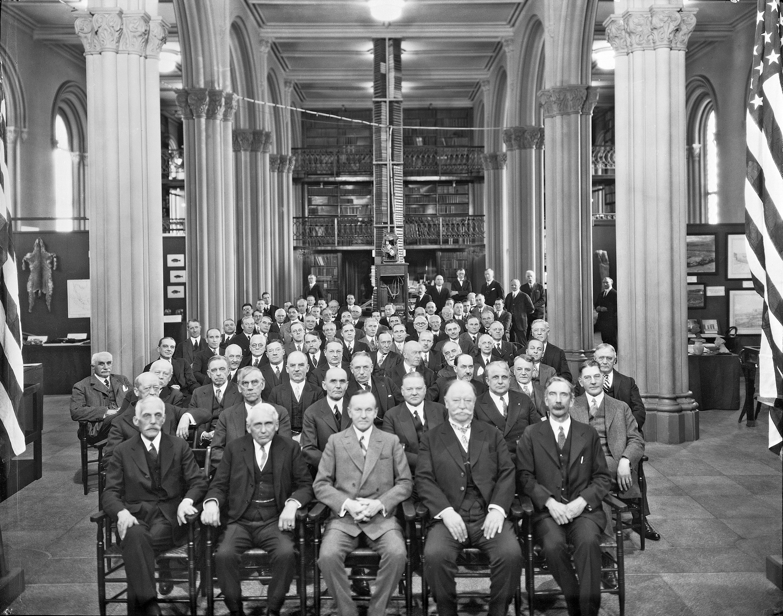 Gathering in the Great Hall of fifty leaders of the scientific, political and industrial life of the country at a conference held at the Smithsonian Institution in February, 1927. In the front row, left to right: Secretary of the Treasury, Andrew Mellon; Secretary of State, Frank B. Kellogg; President Calvin Coolidge; Chief Justice William Howard Taft; and Secretary of the Smithsonian, Charles D. Walcott. Second row: Senator Jesse Houghton Metcalf; Senator Reed Smoot; W. H. Jardine; H. Hoover; J. J. Davis; C. D. Wilbur. Third row: W. H. Welch, H. Work, W. W. Campbell; Henry Fairfield Osborn; John C. Merriam; Dwight Morrow; H. S. New. Fourth row: C. F. Brush; I. B. Laughlin; F. Walcott; C. Hamlin; Frederick A. Delano; Jesse Walter Fewkes; J. Tamblyn. Fifth Row: G. E. Vincent; H. M. Robinson; E. B. Parker, Charles F. Choate; E. W. Gifford; S. Flexner; J. G. Sargeant Sixth row: J. J. Raskob; J. L. Lewton; J. Poole; unidentified; Alexander Wetmore; H. M. Lord. Seventh row: unidentified; I. M. Casanowicz; Nicholas W. Dorsey; Senator Woodbridge N. Ferris. Eighth row: unidentified; E. Rickard; unidentified; Neil M. Judd; William P. True; Walter Hough; Aleš Hrdlička. Ninth row: William L. Corbin; Paul Bartsch; Leonhard Stejneger; J. Collins; Gerrit S. Miller, Jr.; George P. Merrill; Tenth row: Unidentified; Leonard C. Gunnell; Harry W. Dorsey; John Merton Aldrich; Ray S. Bassler; James W. Gidley; Charles Elmer Resser; unidentified; F. Roberts. Eleventh row: Loyal B. Aldrich; W. R. Maxon; William M. Mann; William F. Foshag; Herbert W. Krieger. Twelfth row: Arthur H. Clark; Clarence R. Shoemaker; J. N. B. (John Napolean Brinton) Hewitt. Standing: Wayland; Prescott; C. R. Denmark; S. F. Williams; John R. Ellingston; James S. Goldsmith; and George M. Johnson